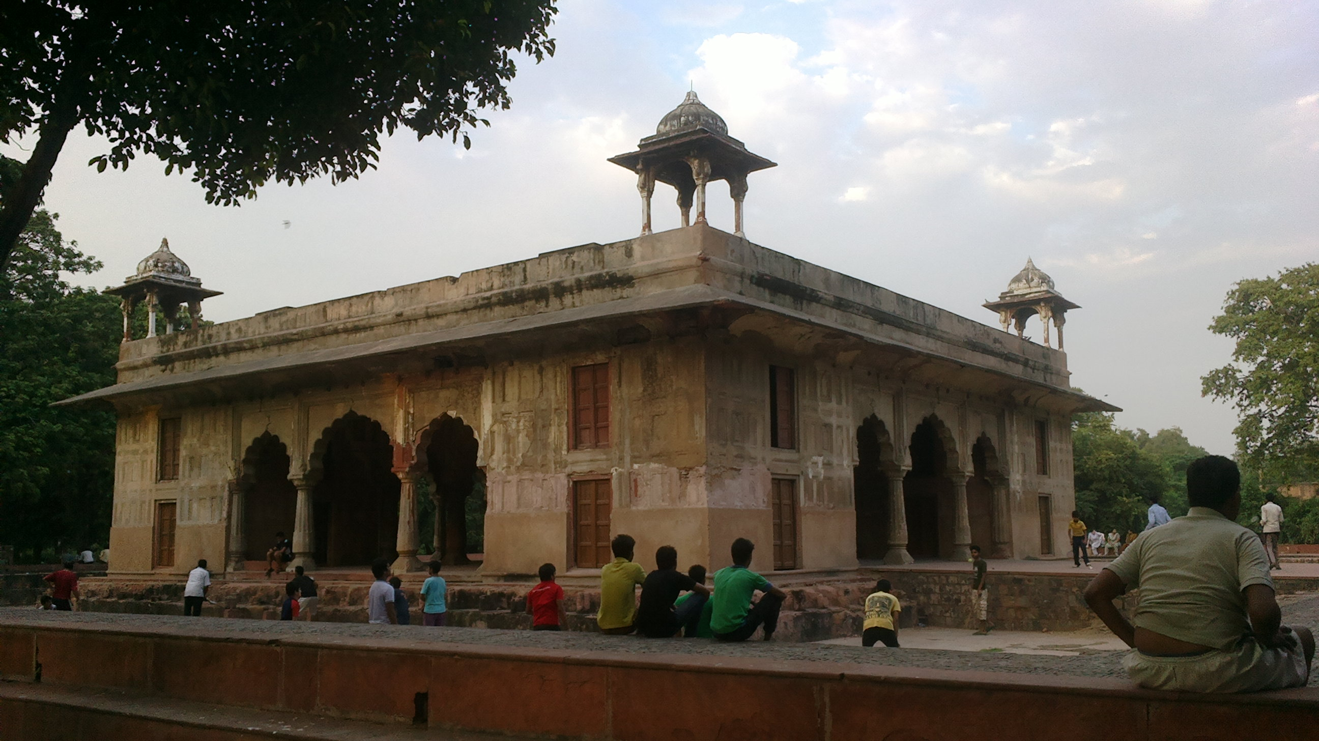 tomb of Raushanara,Shah jahan's 2nd daughter